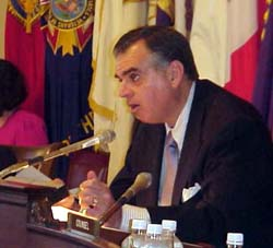 The Subcommittee’s Ray LaHood of Illinois poses a question to one of the panel of witnesses. Subcommittee on Benefits, House Committee on Veterans' Affairs. Hearing on H.R. 1071, the Montgomery GI Bill Improvements Act of 1999 and H.R. 1182, the Servicemembers Educational Opportunities Act of 1999 Thursday, May 20, 1999, 10:00 a.m. 334 Cannon House Office Building